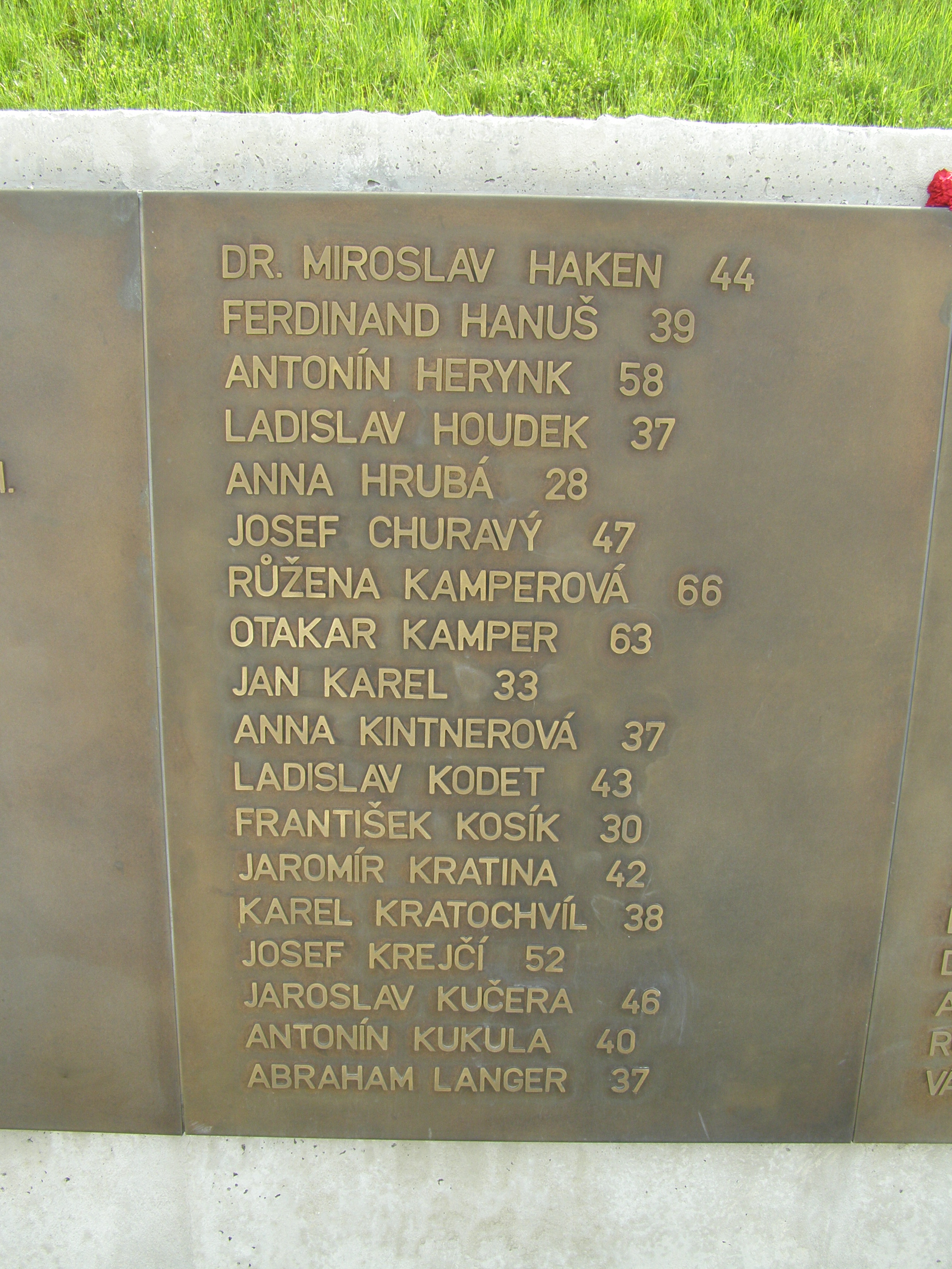 Kobylisy shooting range, Prague, Czech republic - The second of five (out of 36) brass plaques with names (on this place murdered) persons on 30 June 1942. The names in alphabetical order from H to L. The shooting range is after general reconstruction, at the end of April 2016.